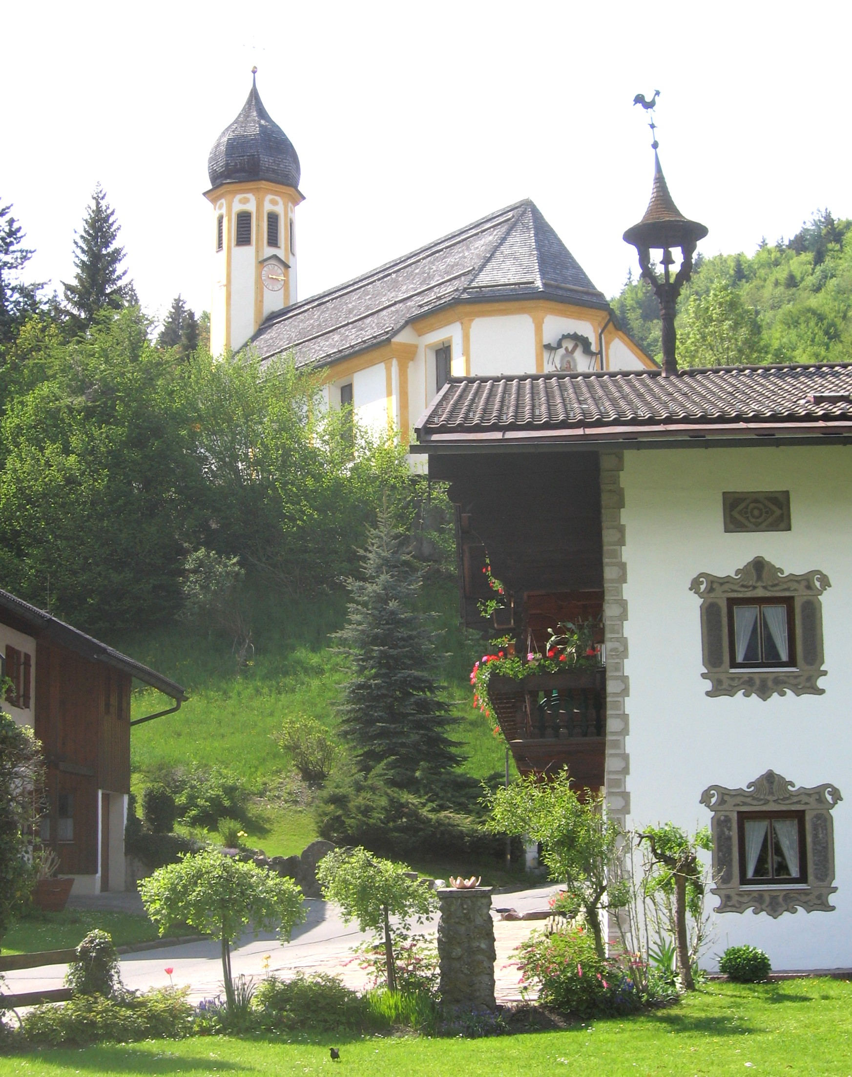 Kiefersfelden, view of Holy Cross old Parish Church from south-east (Dorfstraße).